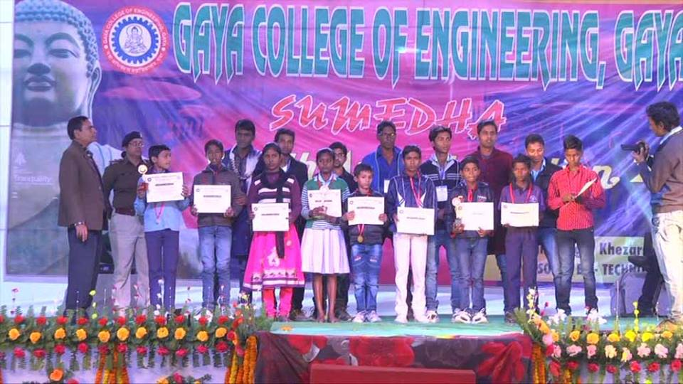 Philanthropy GCEians at Gaya College of Engineering. #Rewarded_students of middle school by #Principal of Gaya College of Engineering,Gaya under banner of #Phlanthropy GCEians